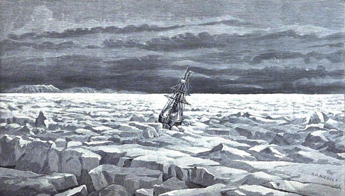 Sketch of the Thomas Corwin caught in ice floes in the Bering Sea, June 1880 Caption The Corwin in a "nip" off Cape Romanzoff